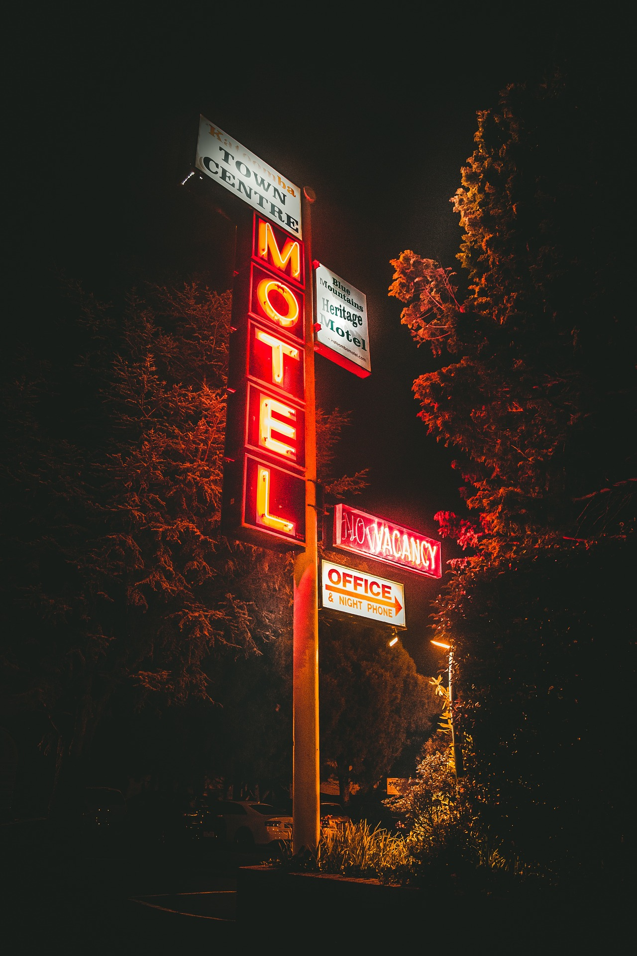 Motel